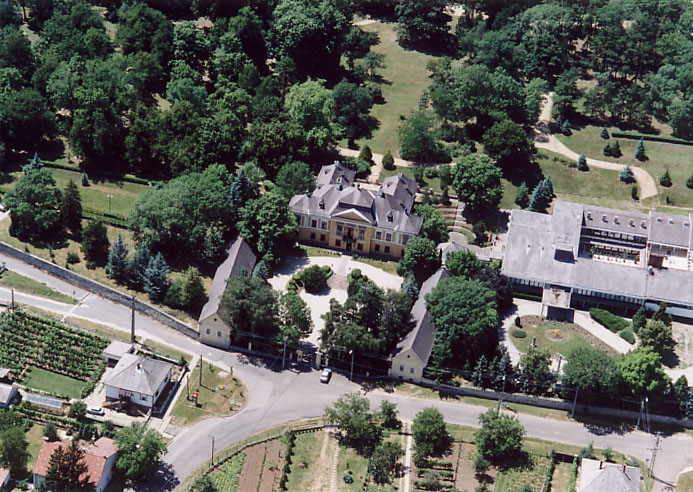 Palace - Noszvaj - Hungary - Europe